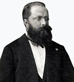 Onesim Claire - scientist and teacher from Corcelles-Cormondrèche (Neuchâtel, Switzerland) who has initiated the scientific life in Ekaterimburg and Ural (Russia)